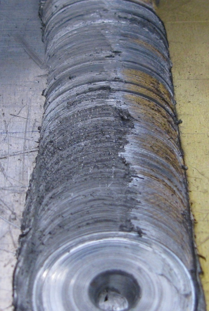 aluminum-brass